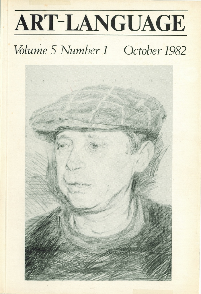 Art-Language Volume 5 Number 1 October 1982 by Art & Language